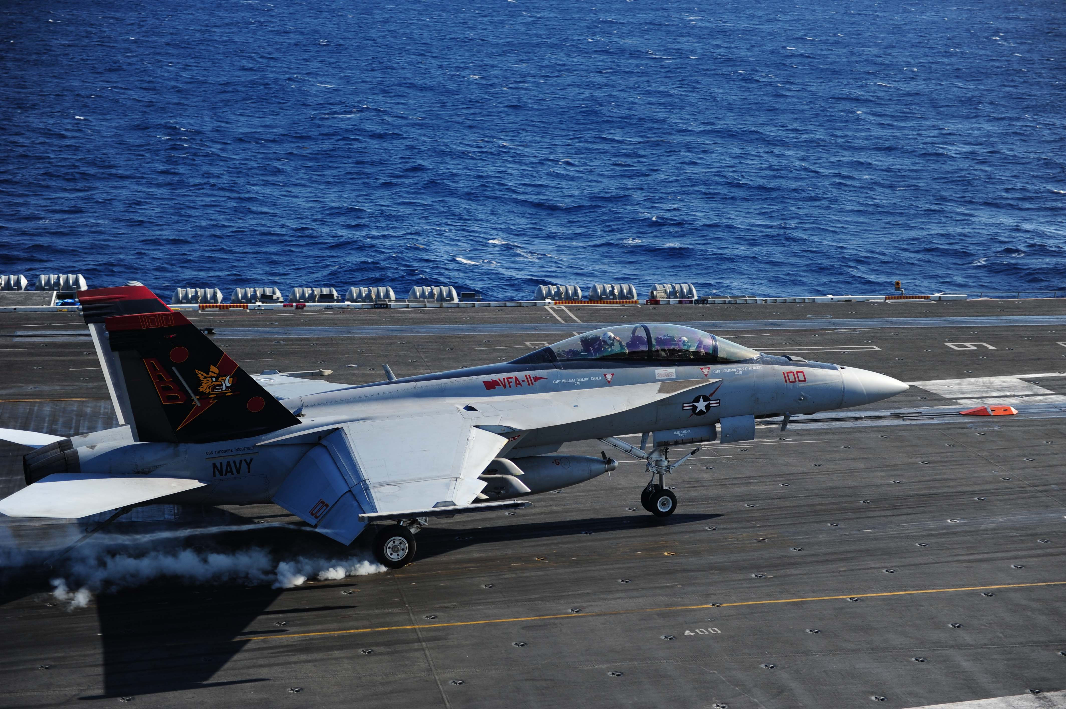 A U.S. Navy Boeing F/A-18F Super Hornet assigned to Strike Fighter Attack Squadron (VFA) 11 "Red Rippers" is landing on the flight deck of the aircraft carrier USS Theodore Roosevelt (CVN-71) in the Atlantic Ocean. Theodore Roosevelt, with assigned Carrier Air Wing 1 (CVW-1), was out to sea preparing for future deployments.